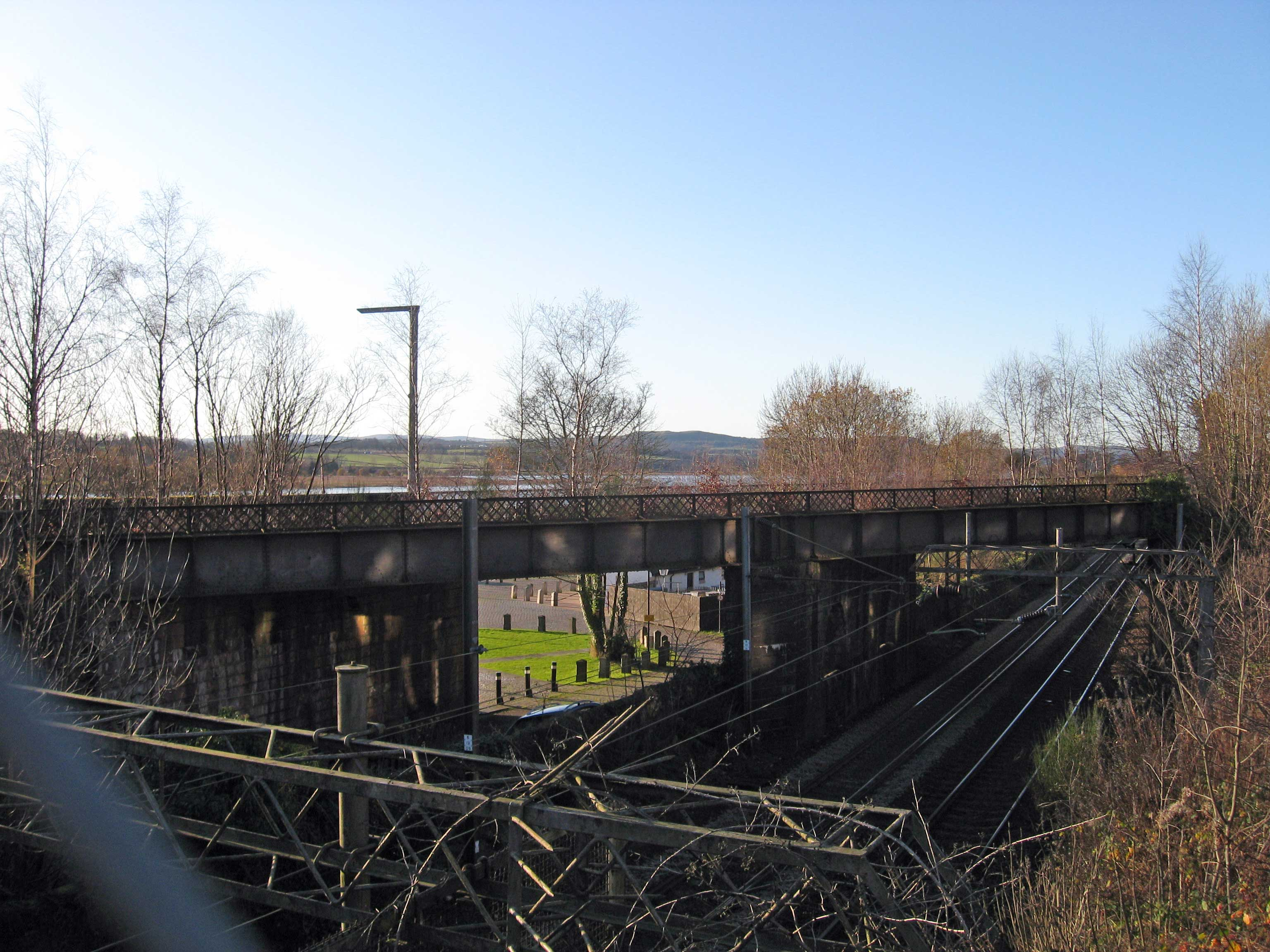 Disused Lanarkshire and Dunbartonshire Railway crossing over the North Clyde Line at Bowling, West Dunbartonshire.